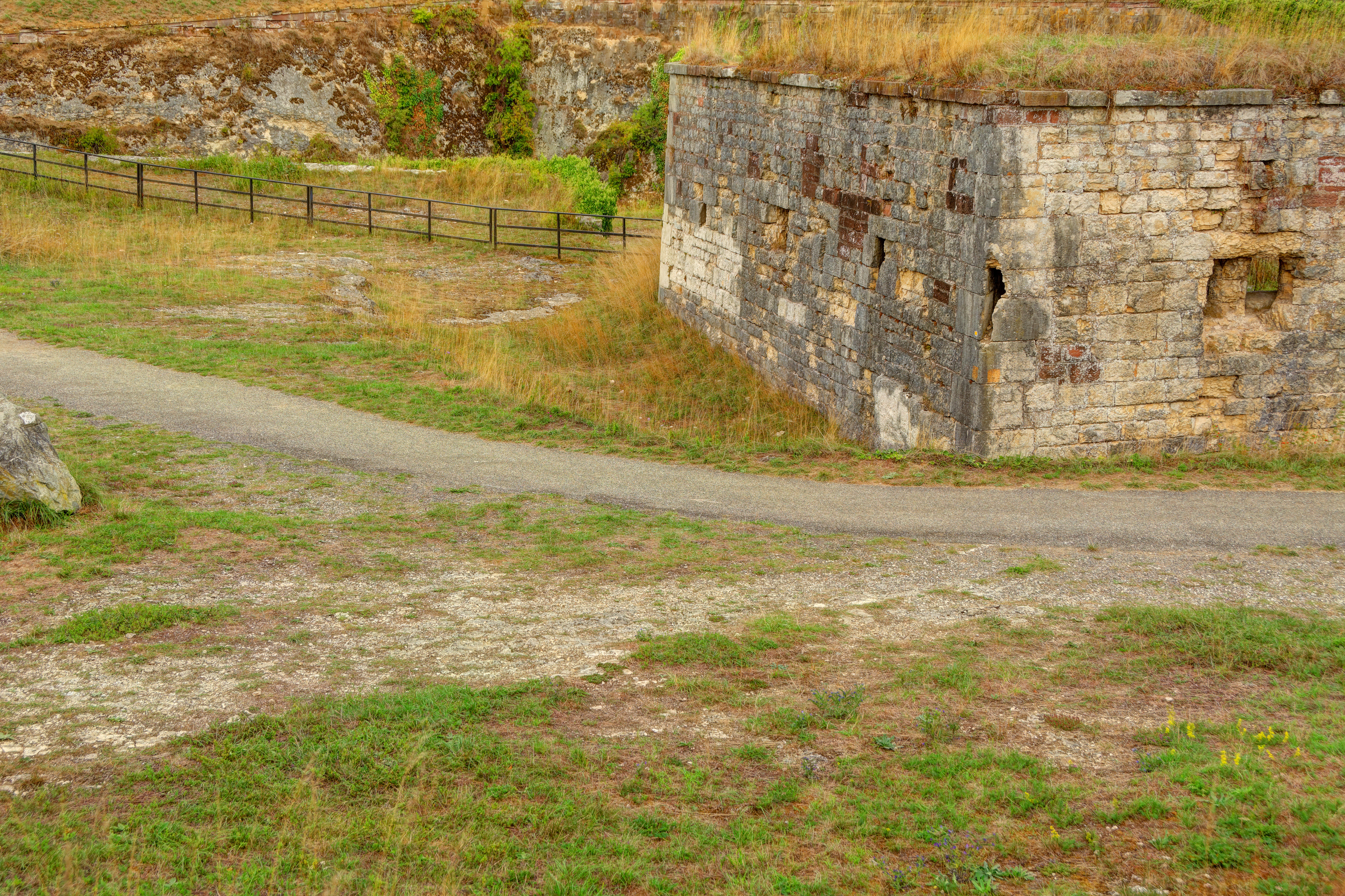 Place where "le fusillé souriant" ("the smiling execution victim") was taken. The picture itself remains under copyright; it can be seen here